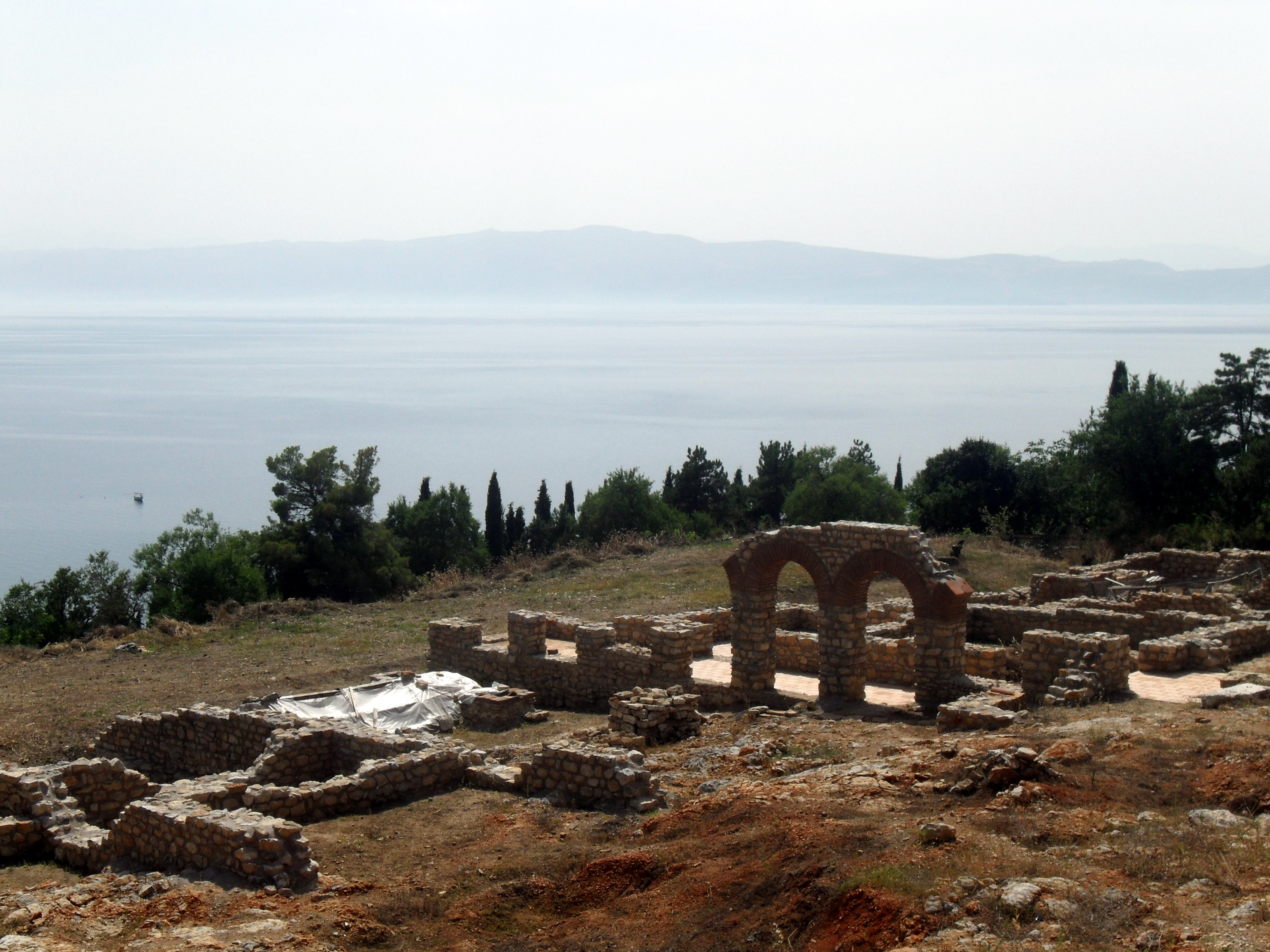 Plaošnik, Ohrid